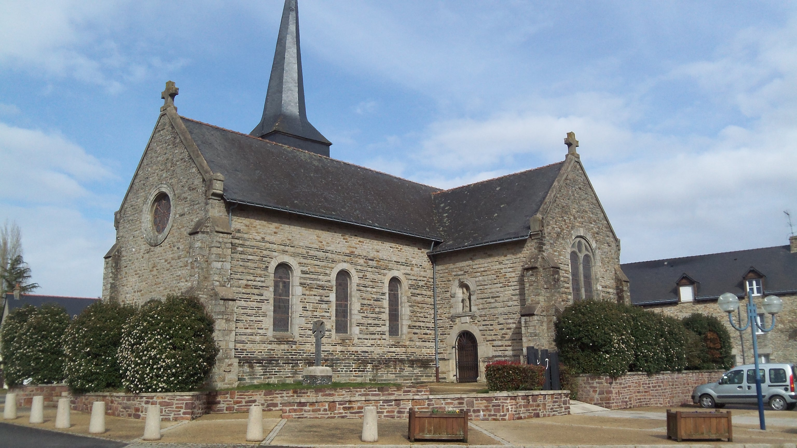 The St-Malo church located in Monterrein, Morbihan (56)